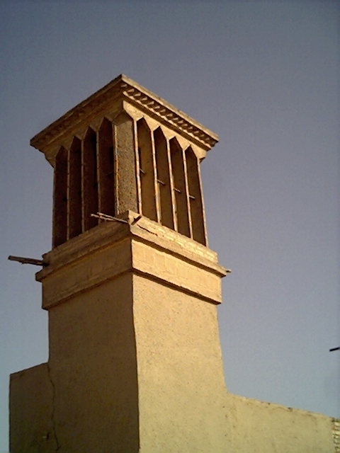 Windtower - Yazd - Iran Photo by : Shervin Afshar